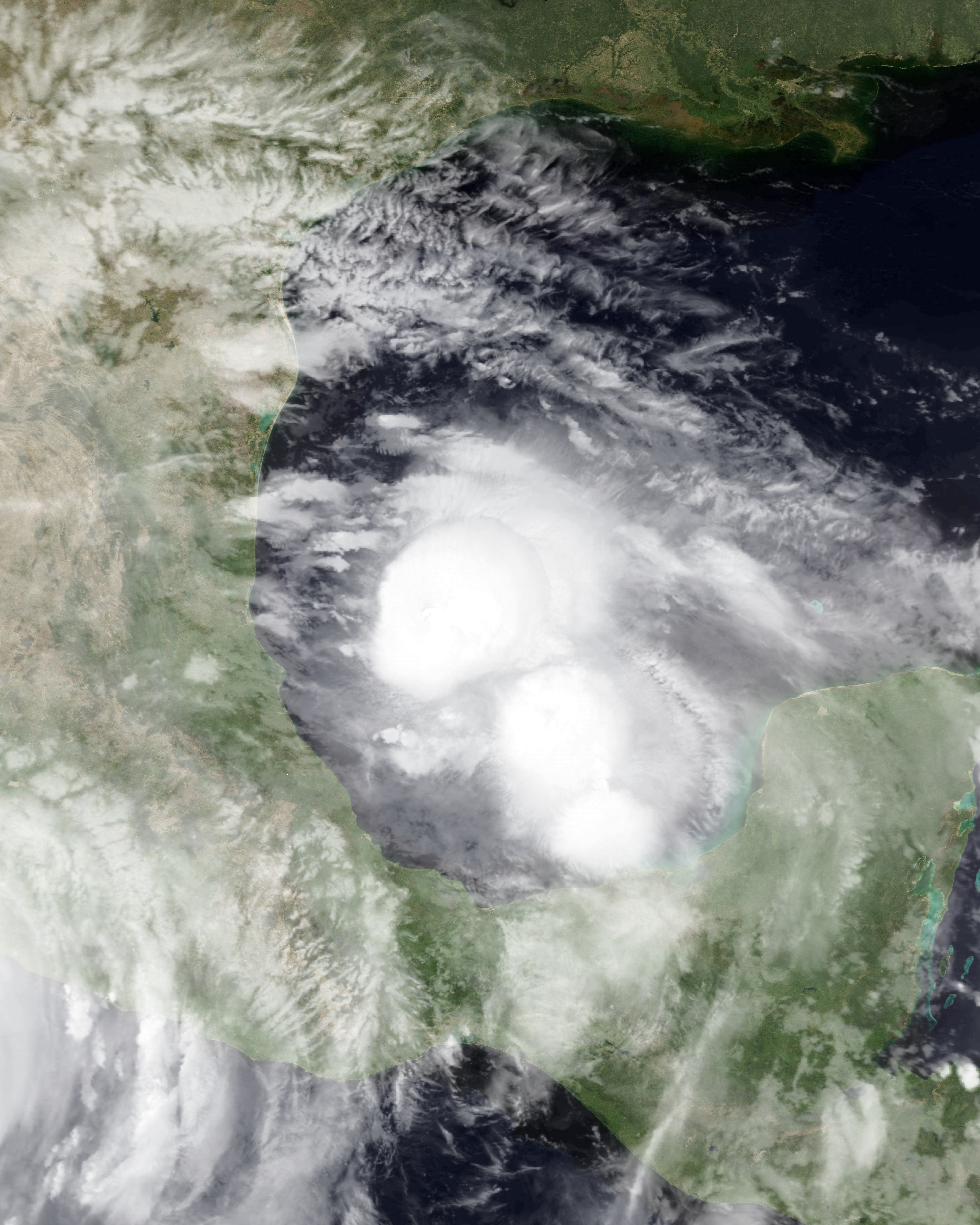 Hurricane Ingrid near peak intensity